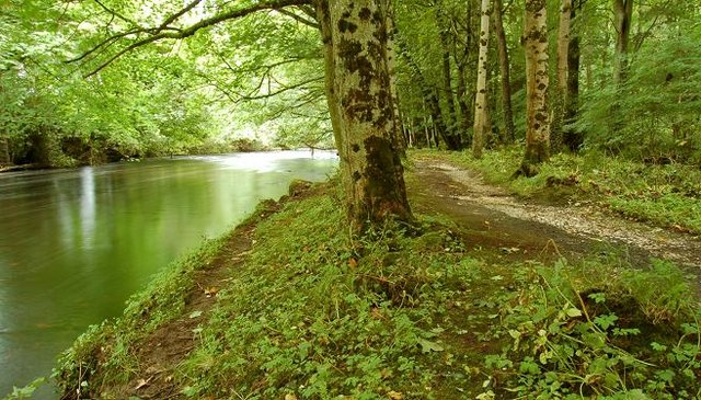 River, Glenarm forest The Glenarm River flowing through the still green Glenarm forest.